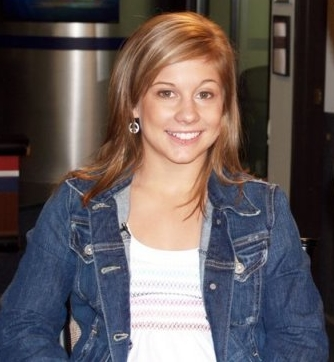 Photo of Shawn Johnson when she was interviewed at KUSI-TV In San Diego Please acknowledge "Phil Konstantin" as the creator of this photograph.